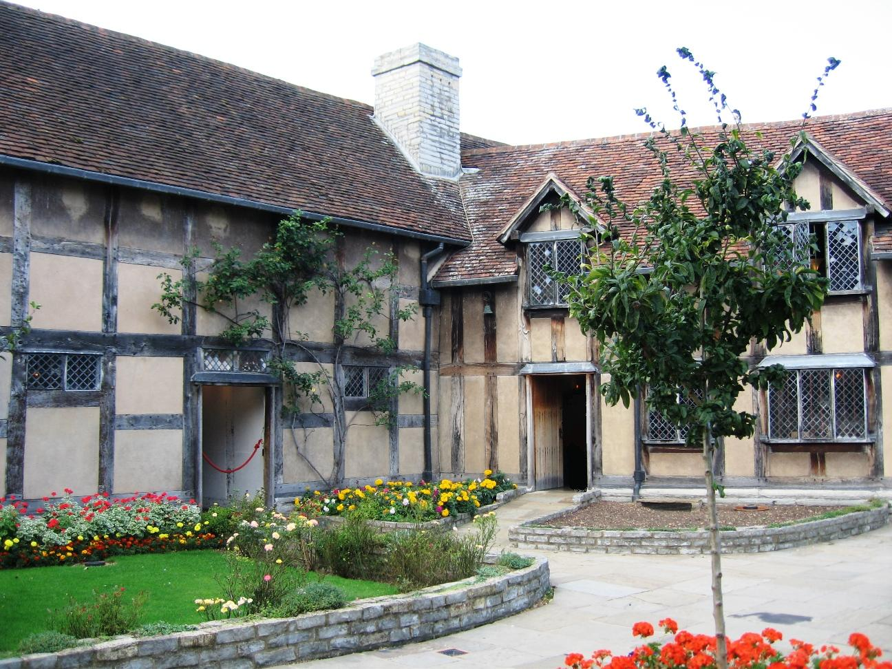 Shakespeare's birthplace (rear view and gardens), Stratford-upon-Avon, Warwickshire, England.